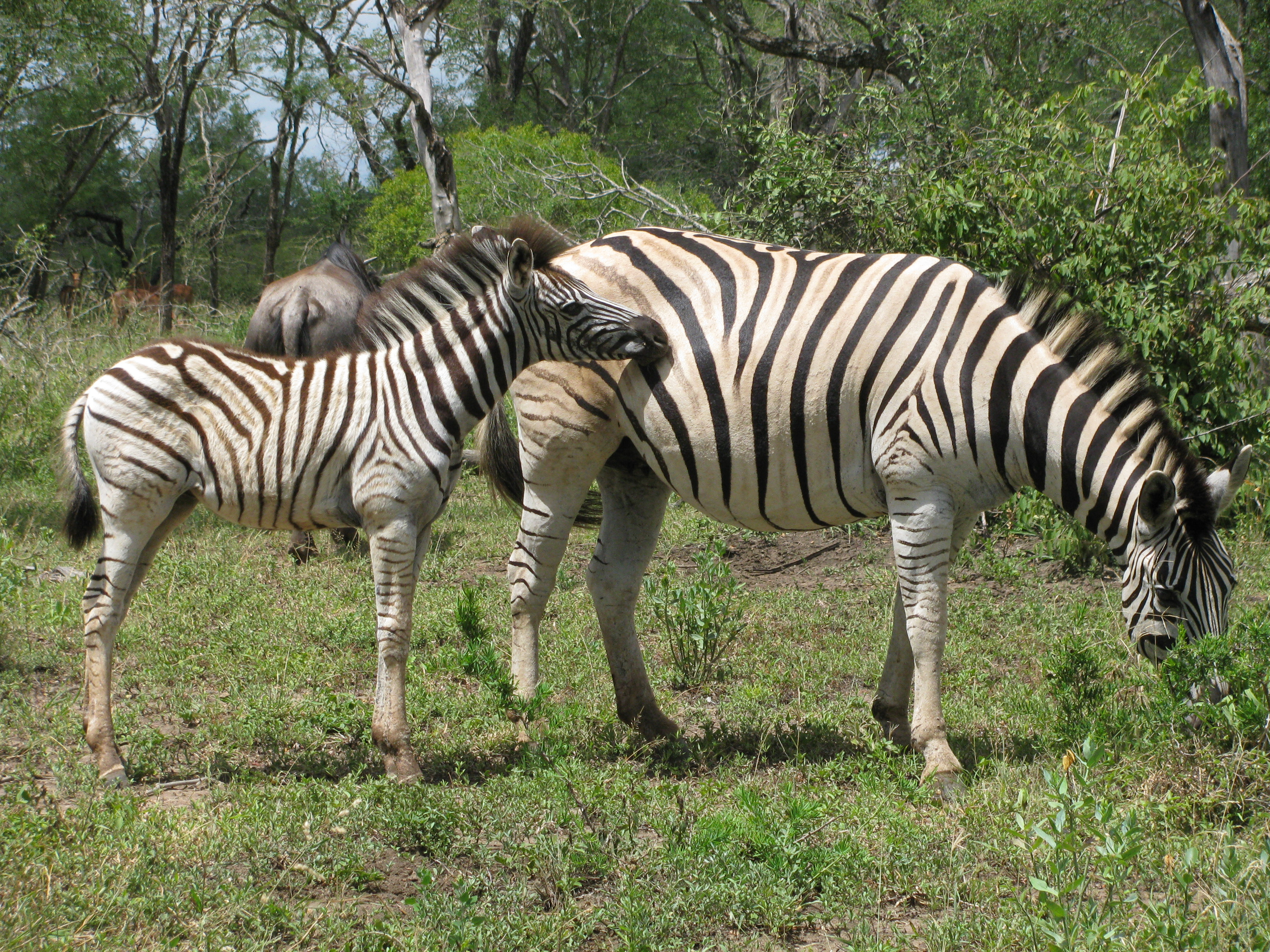 Shy, young zebra